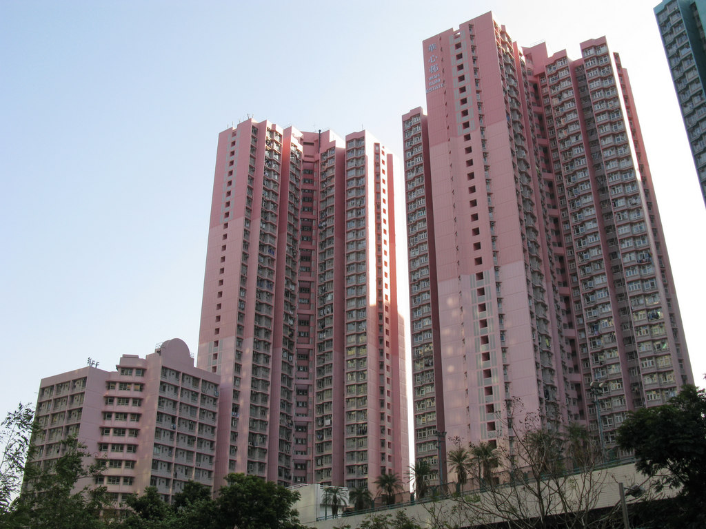 Wah Sum Estate